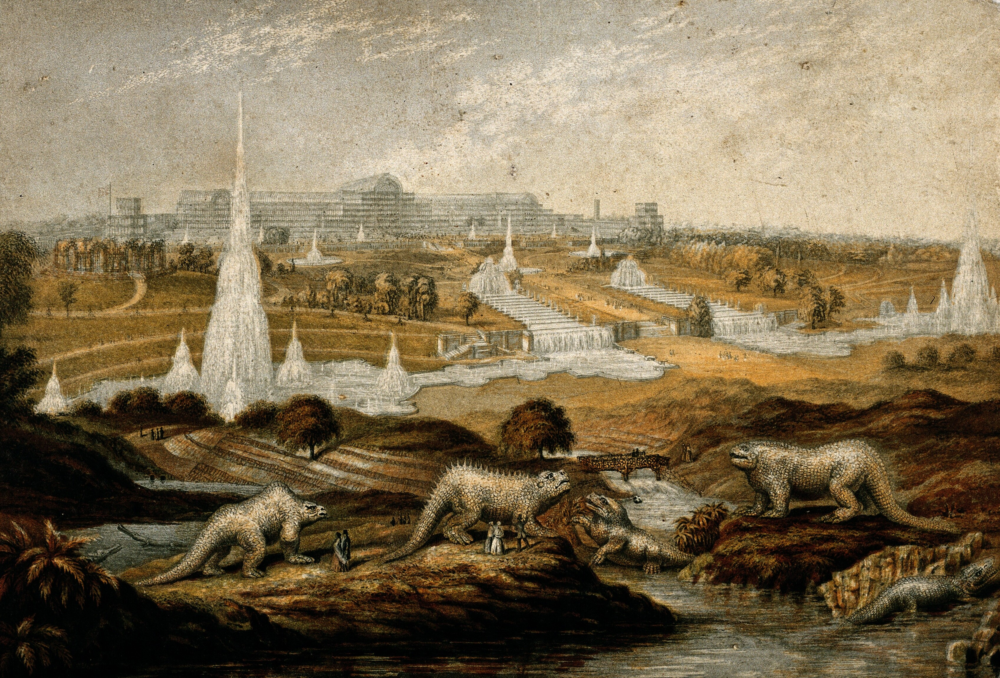 The "Crystal Palace" from the Great Exhibition, installed at Sydenham: sculptures of prehistoric creatures in the foreground. Coloured photomechanical print, later than 1854?. Iconographic Collections Keywords: Joseph Paxton; George Baxter; sydenham; Benjamin Waterhouse Hawkins; crystal palace; Isambard Kingdom Brunel